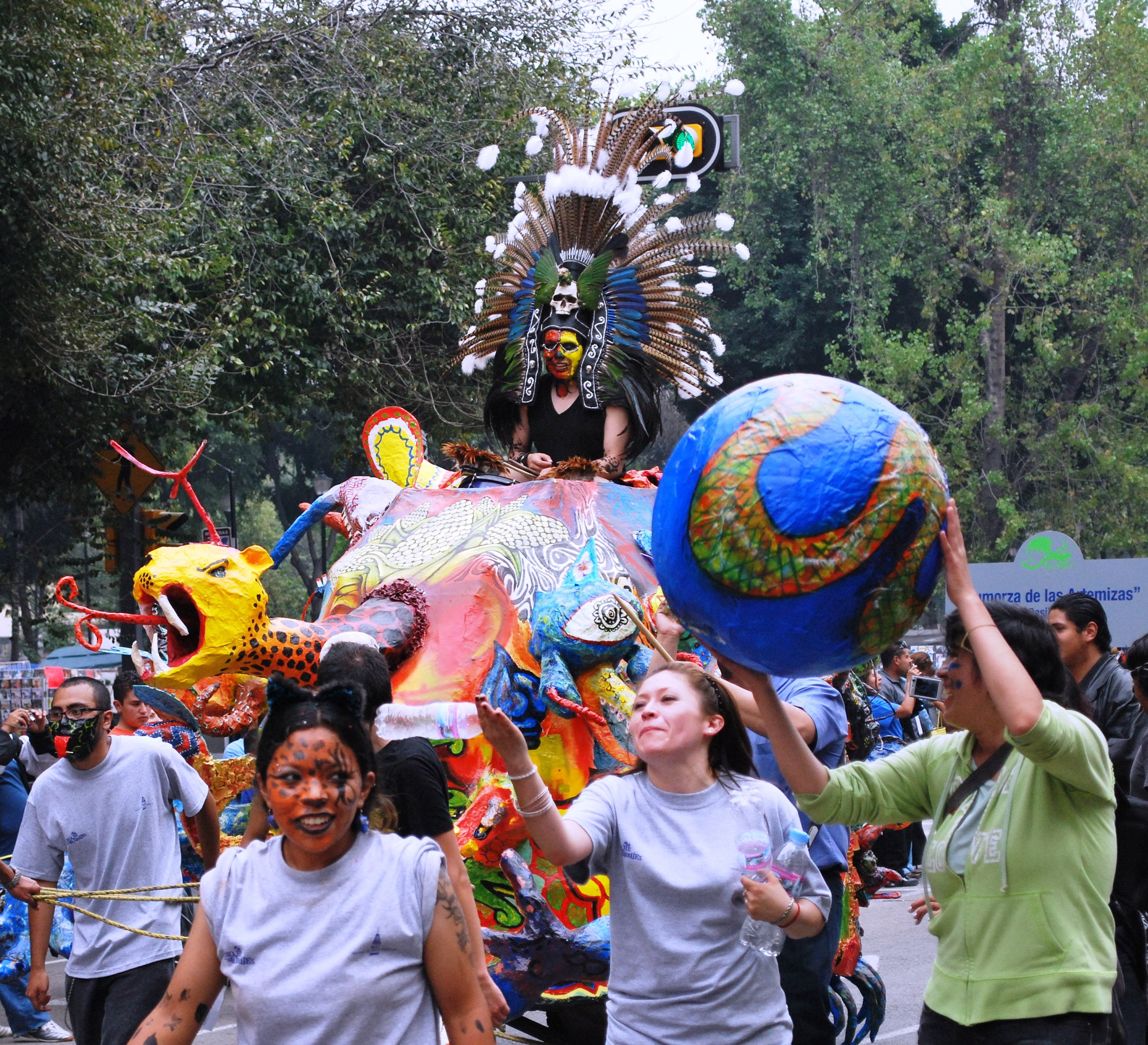 Alebrije named Amimalitrix at the Juarez Street portion of the parade